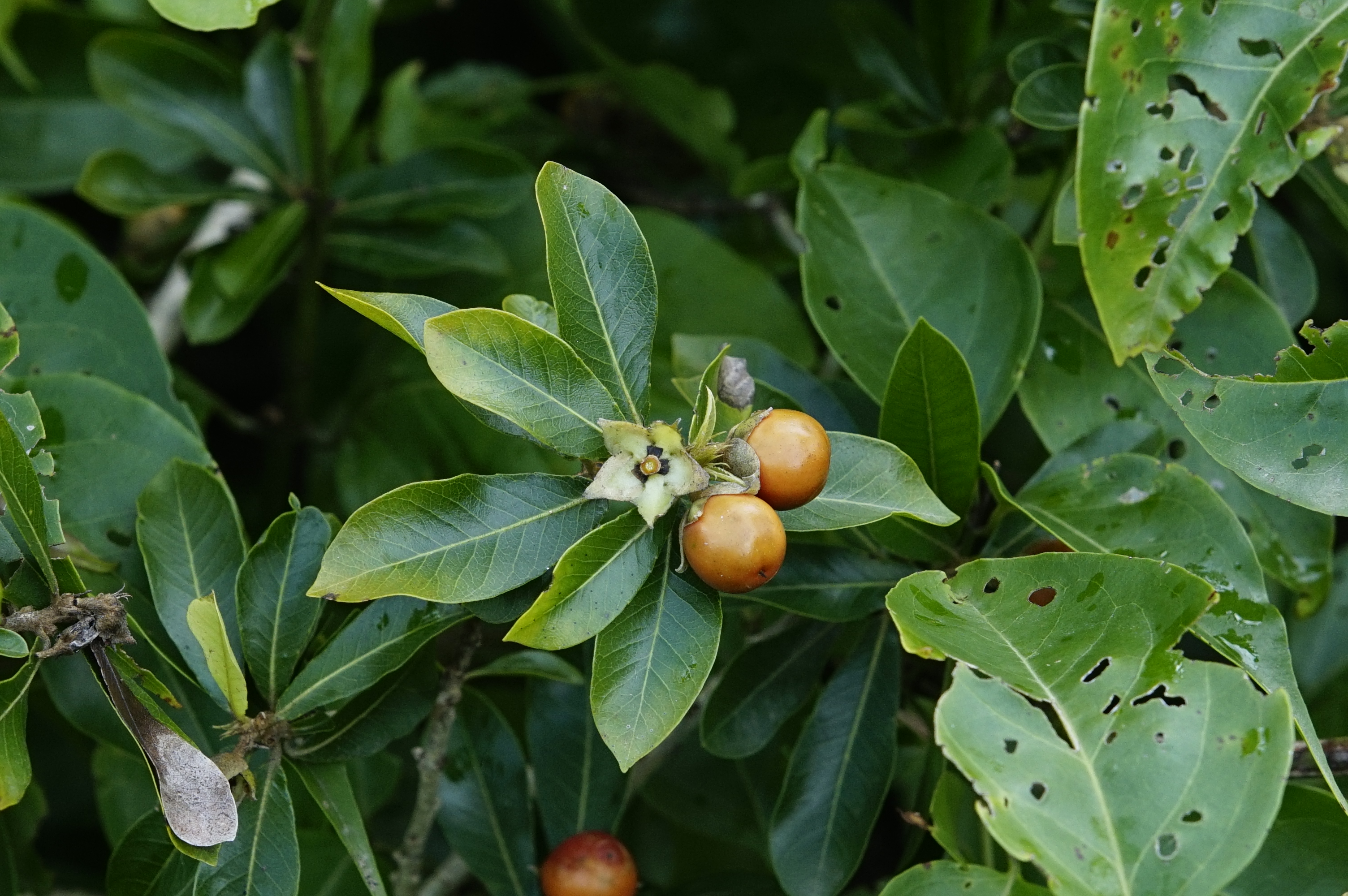 Madayi